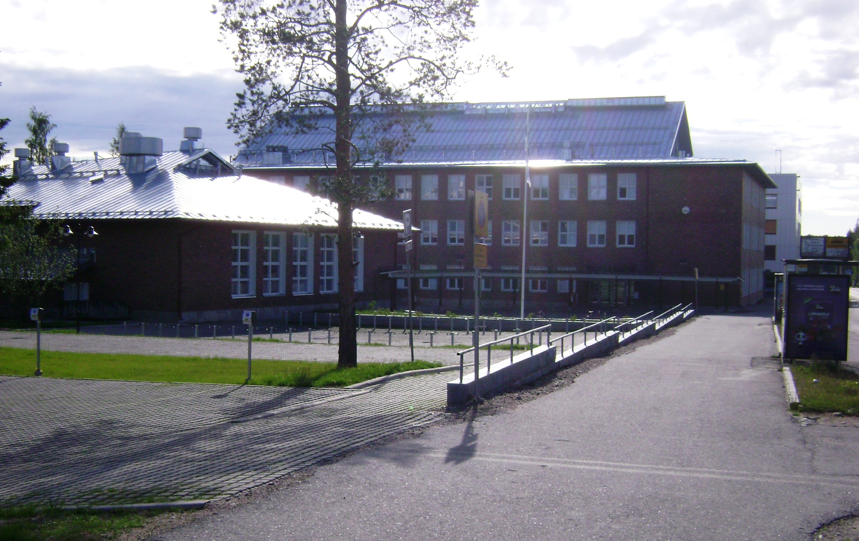 Lyseonpuisto upper secondary school in Rovaniemi, Finland.